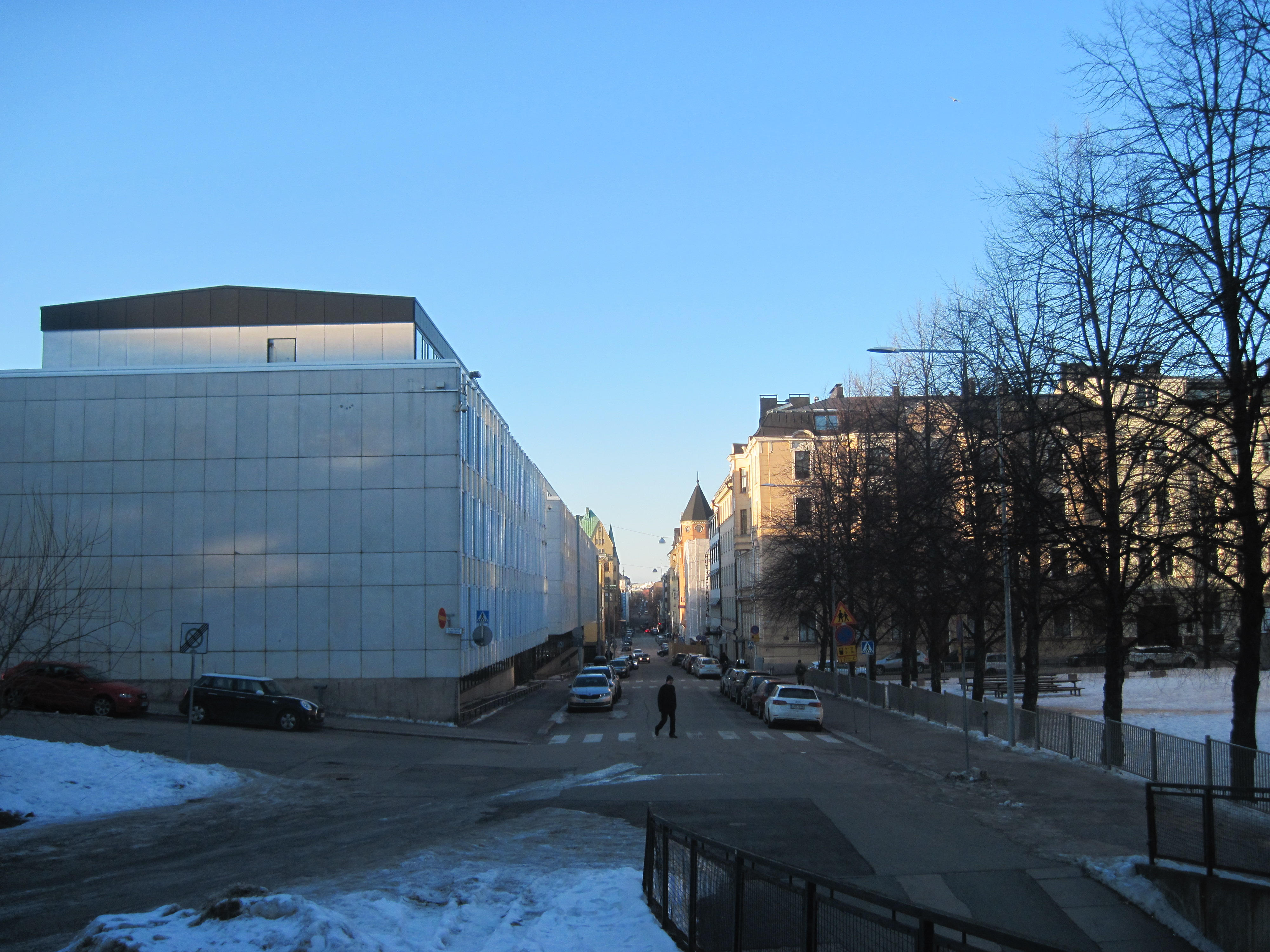 Fabianinkatu in Helsinki as seen from its southern end